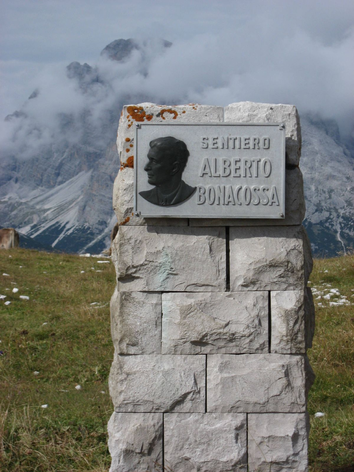 A signpost at the Sentiero Alberto Bonacossa, a hiking trail in the Italian Dolomites (a section of the Alps)